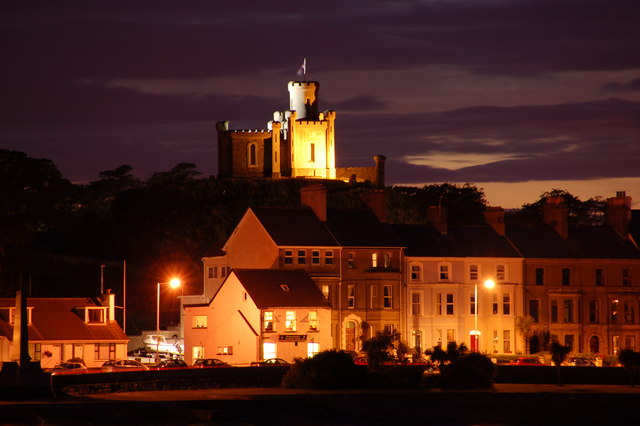 The Moat, Donaghadee at twilight. For the background to The Moat see 194756. This is it (floodlit) just after sunset with Shore Street in the foreground.